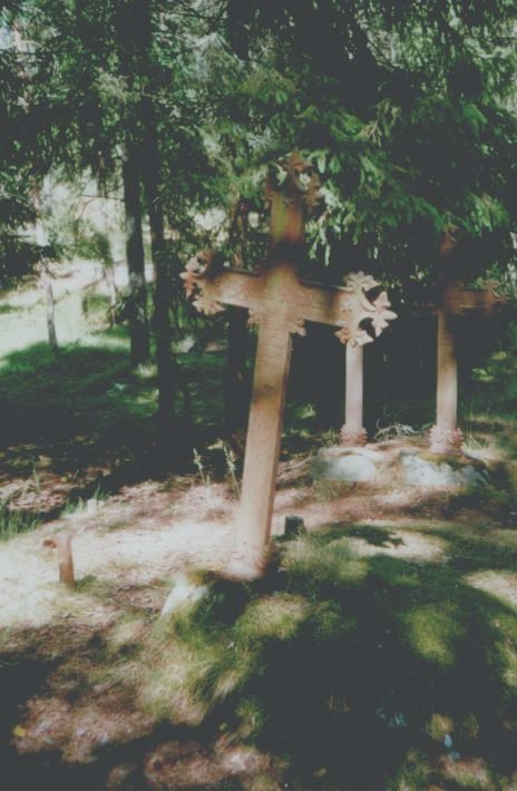 Cemetery on Aegna (island of Estonia). Hřbitůvek na ostrově Aegna.